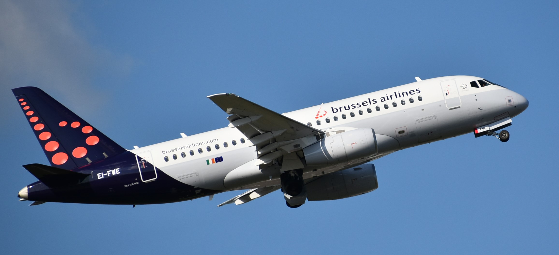 Sukhoi SSJ-100 of Brussels Airlines departing rwy.15 at Birmingham-BHX, 18/06/17.